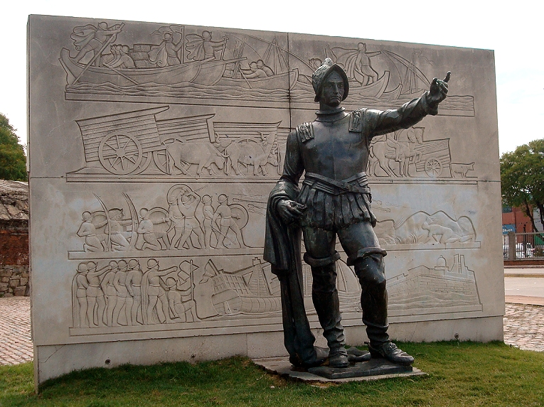 Monument to Hernandarias in Ciudad Vieja, Montevideo, Uruguay.